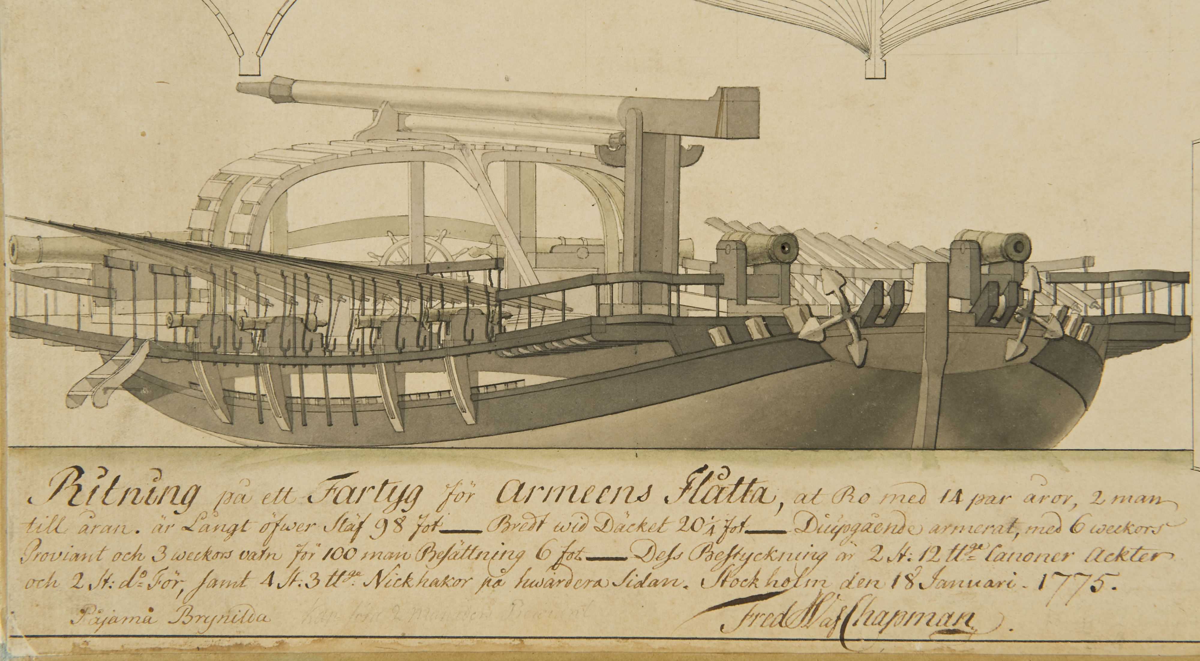 Detail of a contemporary schematic of the pojama Brynhilda by Fredrik Henrik af Chapman. Ink on paper, 18 Januari 1775.